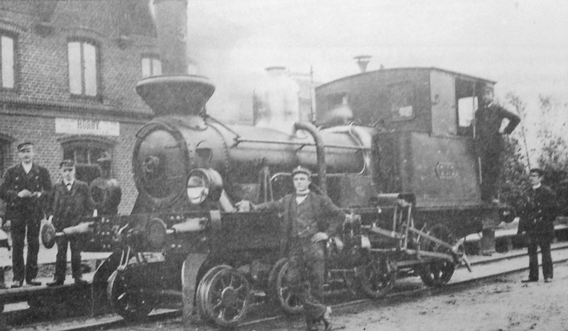 The Steam Railway Gärds Härads Järnväg engine no 3 at Hörby station around 1895.